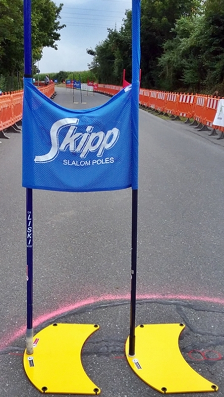 Giant Slalom Gate